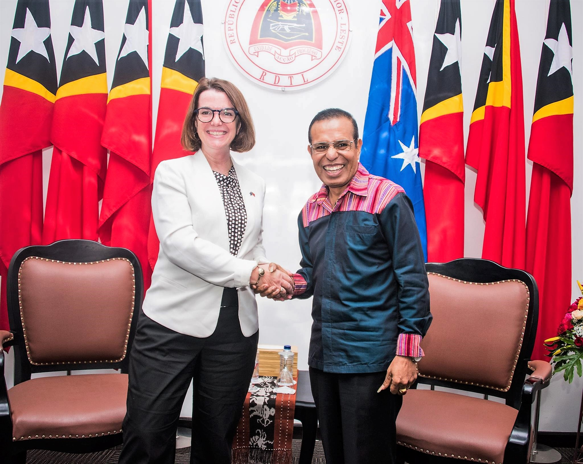 Anne Ruston, Assistant Minister for International Development and the Pacific, and Taur Matan Ruak, prime minister of East Timor